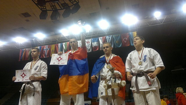 Чемпион Европы Варна,Болгария